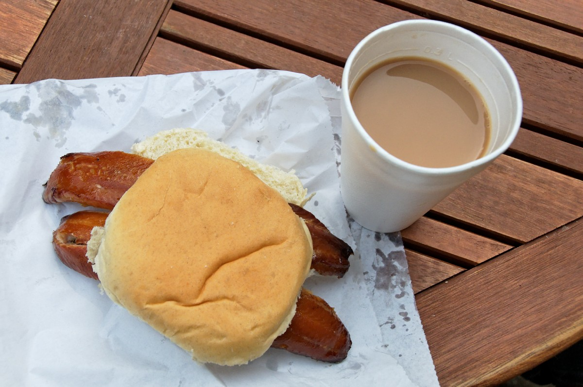 Two Caster kipper fillets in a white bread bun with a cup of tea in a polystyrene cup